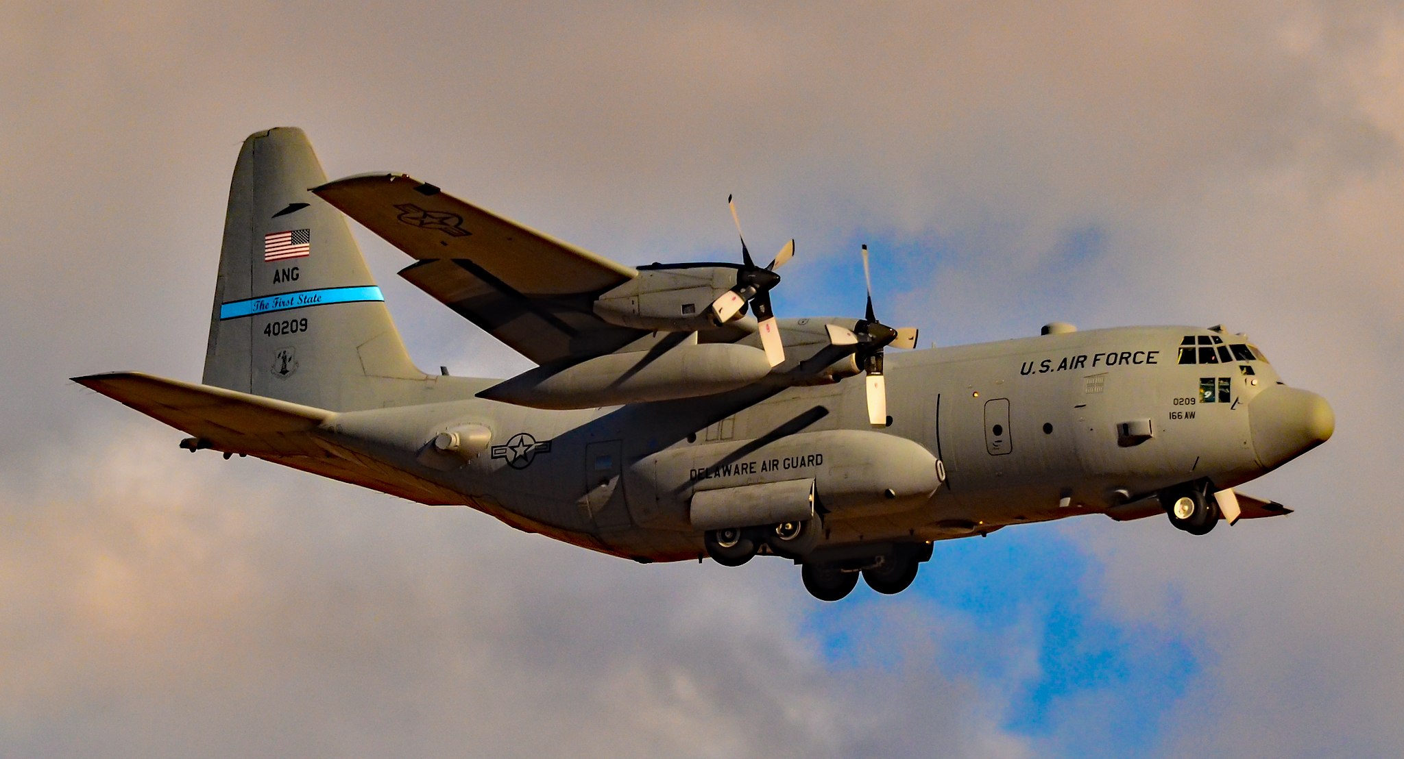 Las Vegas - Nellis AFB (LSV / KLSV) USA - Nevada, February 22, 2017 Photo: TDelCoro